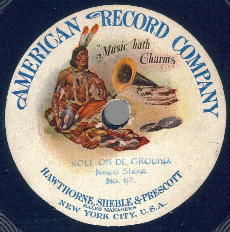 Roll on de Ground - Negro Shout - by an unknown artist, American Record Company [unknown year].